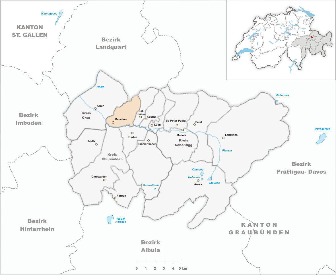 Municipality Maladers